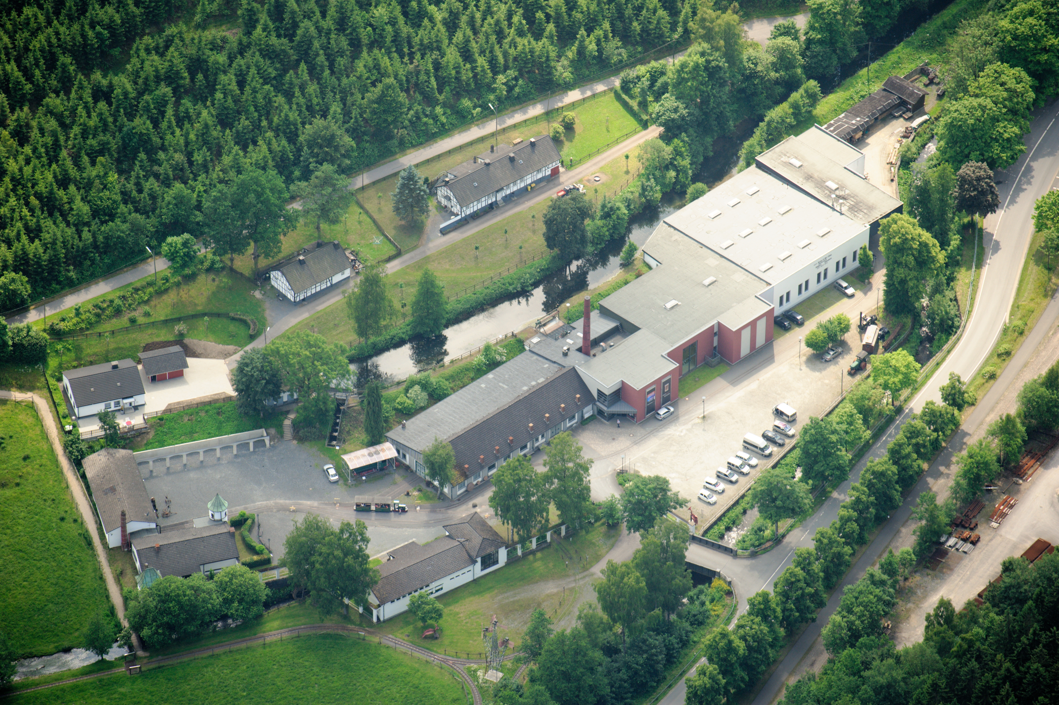 Fotoflug Sauerland-Ost – Maschinen- und Heimatmuseum Eslohe von Nordosten The making of this document was supported by the Community-Budget of Wikimedia Germany.